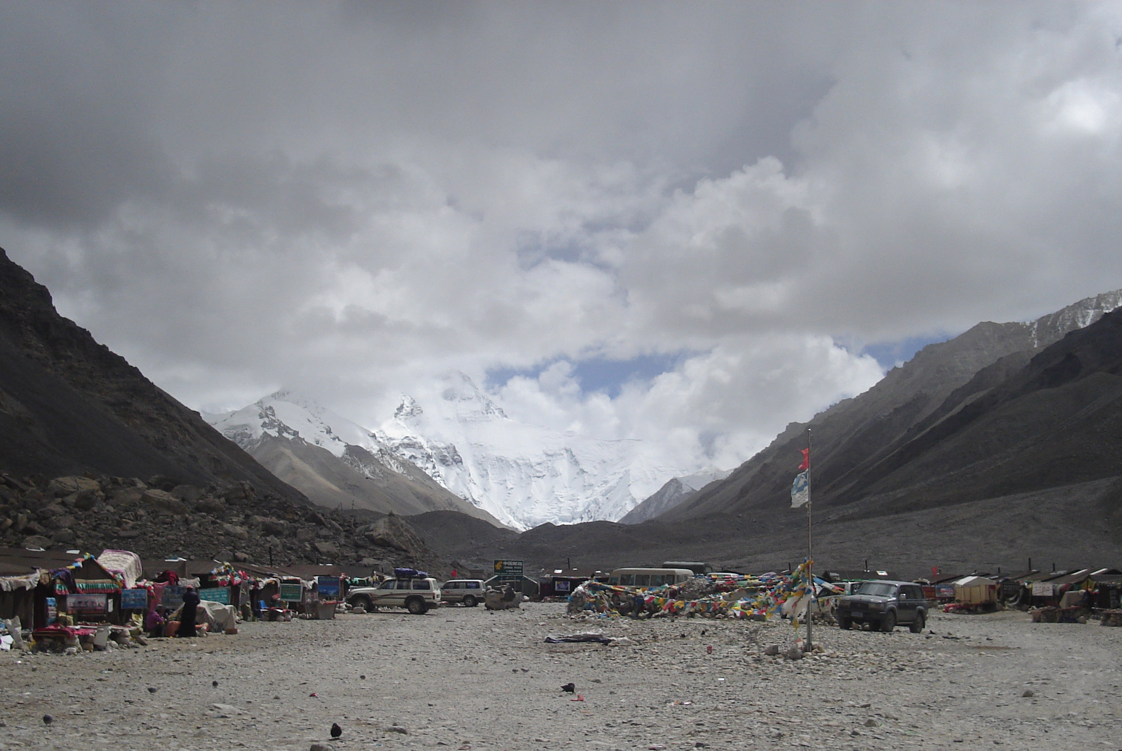 This is the tent village established for tourists' convenience called Everest Base Camp, in Tibet. It is the furthest that private cars can go. A microbus is available to take tourists about 2 kilometers higher. Mt. Everest can be seen in the background.